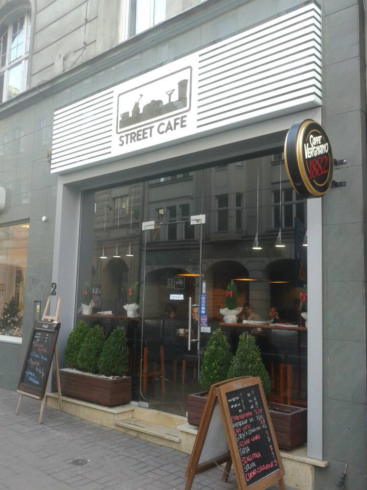 Street Cafe in Poznan